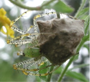 Green lynx spider with egg case